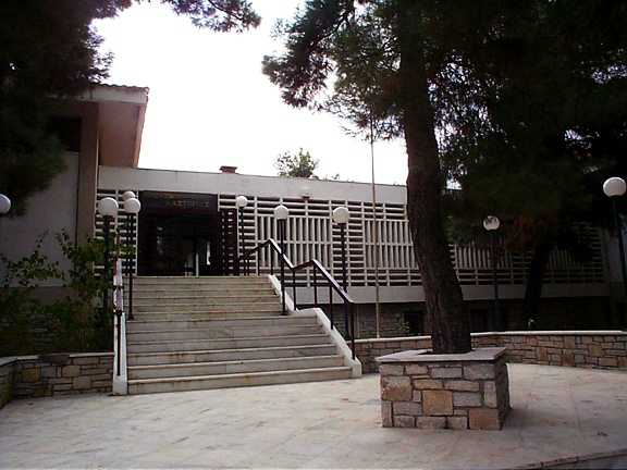 Outside view of the Museum, image from the Byzantine Museum, Kastoria, West Macedonia, Greece